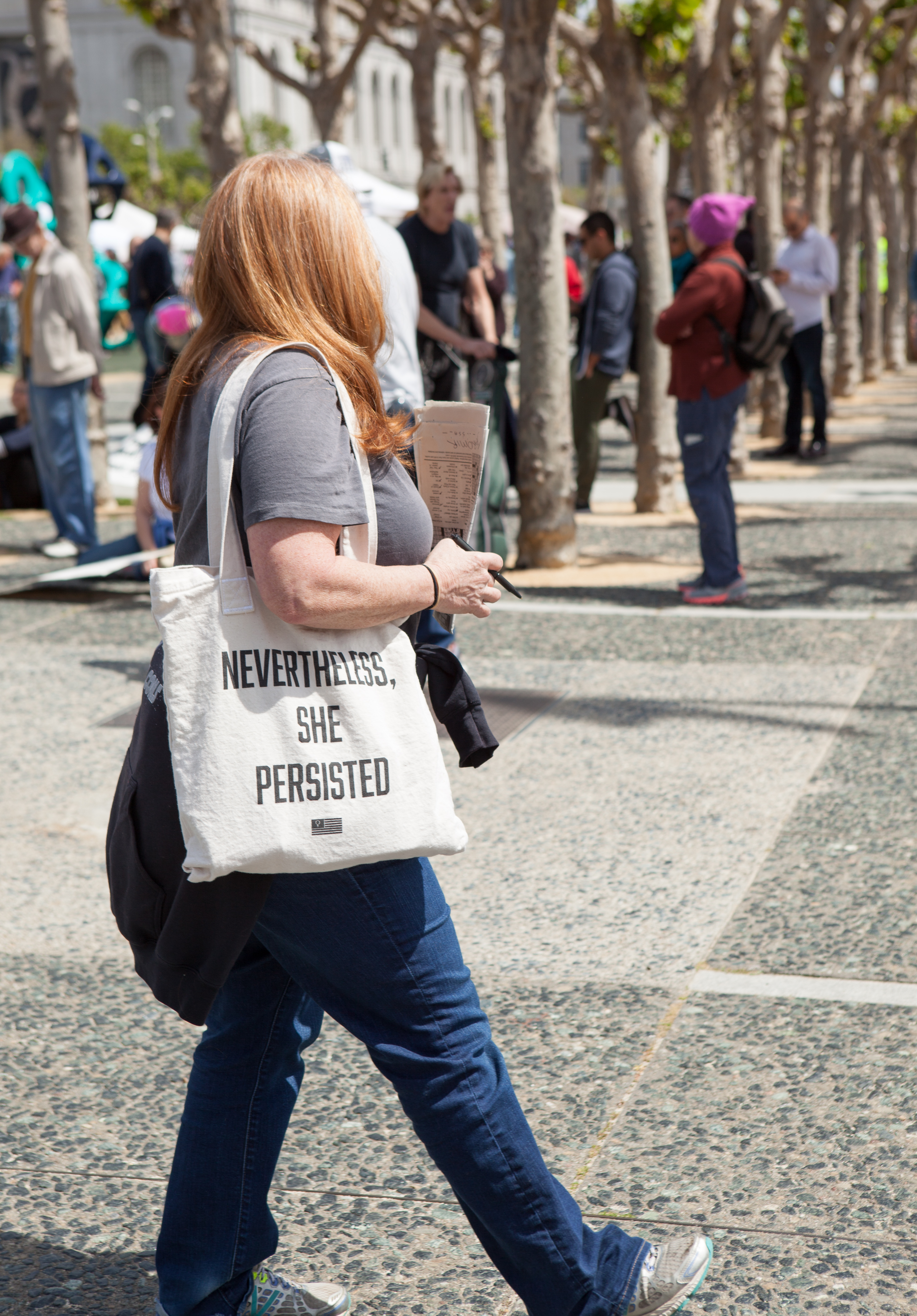 A Tax March San Francisco attendee walks through Civic Center Plaza holding a totebag reading "Nevertheless, she persisted."